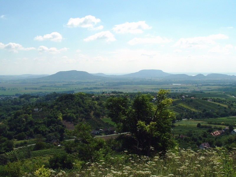 The Basin of Tapolca with the spent volcanoes. Balaton Uplands National Park.